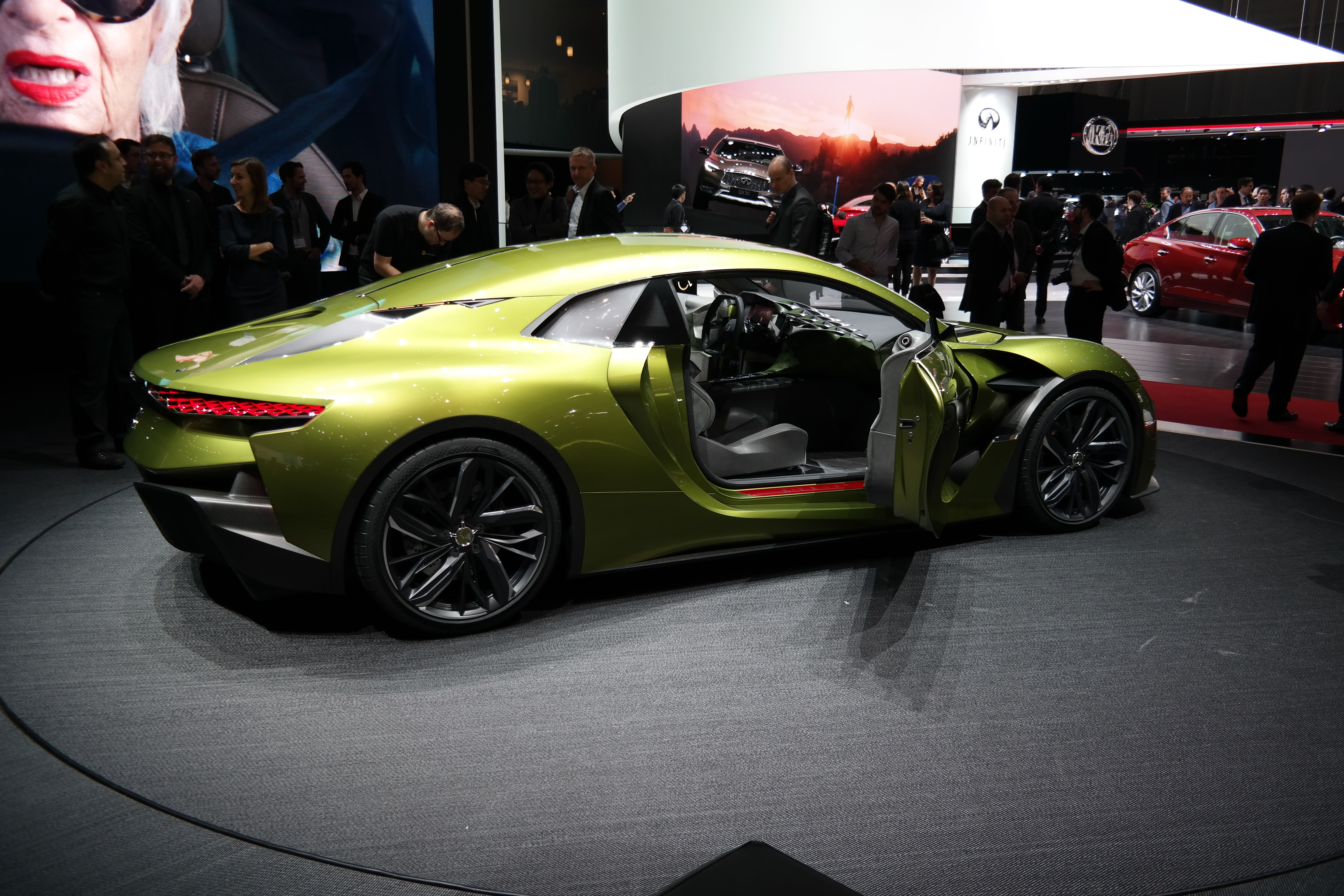 Geneva Motor Show 2016 (photo taken on the first press day)